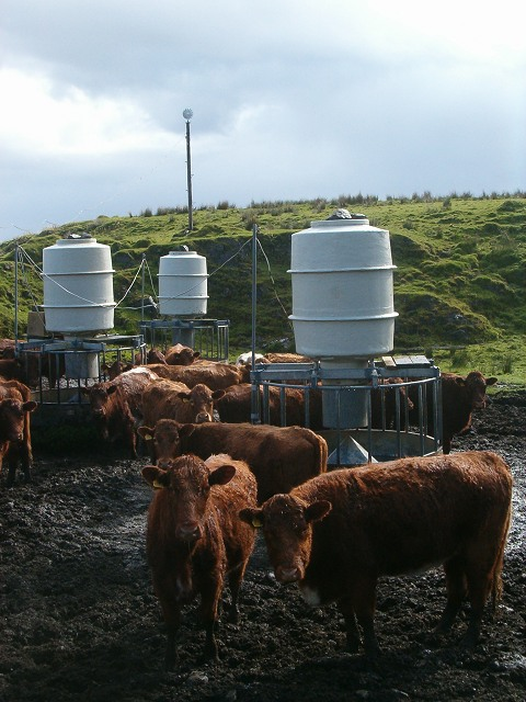 Automatic cattle feeder. Scarba is an uninhabited island and the farmers can't get across to feed stock every day. This automated solution, powered by a small wind turbine, seems to work.